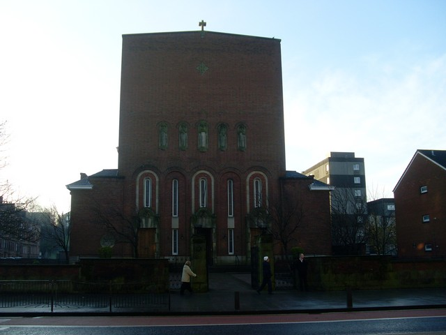 St Columbkille's Church, Rutherglen Catholic church on Main Street. Built in 1940.